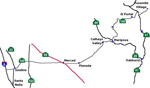 Map of California State Highway 140, drawn by myself.